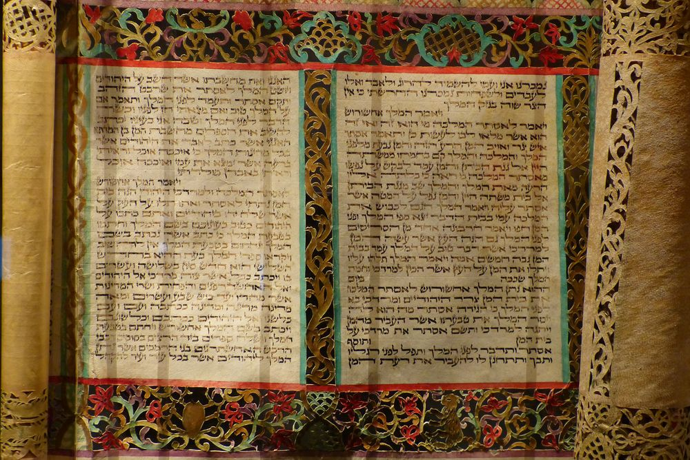 Part of an Esther scroll of the Collection Braginsky